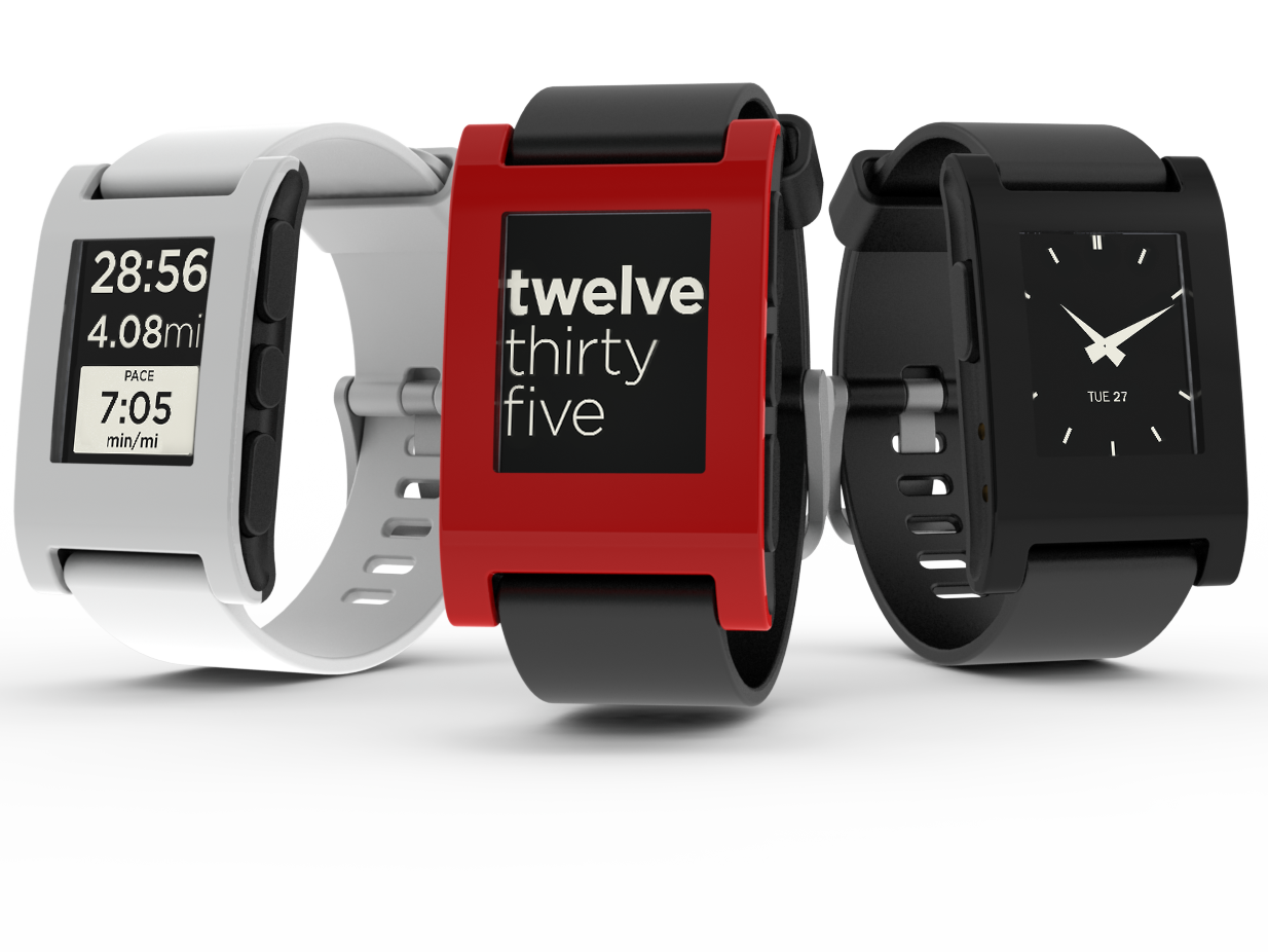 Pebble E-Paper Watch in three colors.